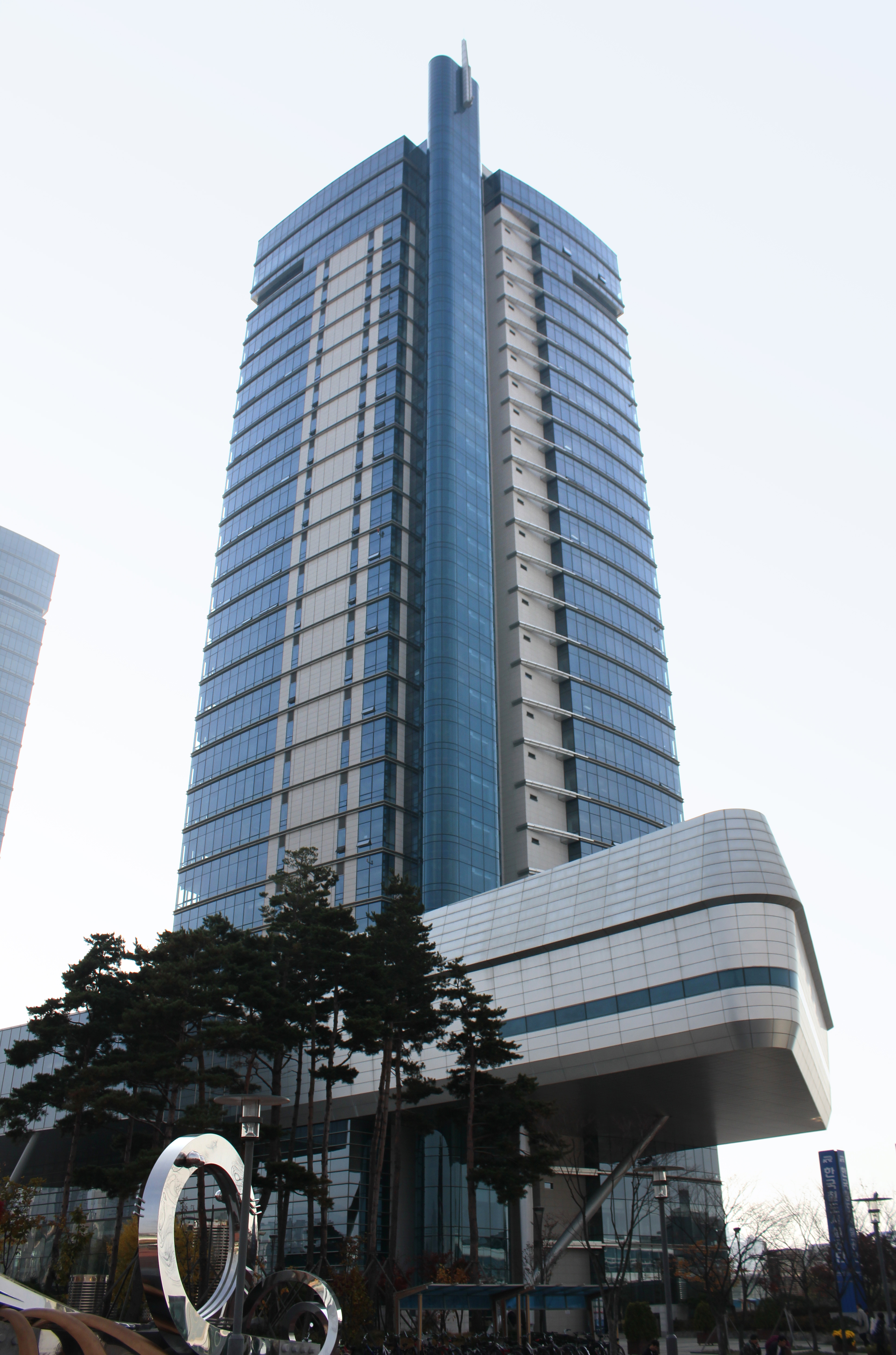 @Daejeon Station